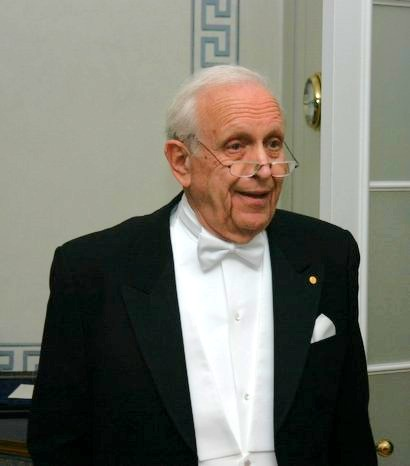 This is an image of Prof Roy Glauber, Nobel Prize Winner in Physics, 2005 at the Nobel Prize Ceremonies.